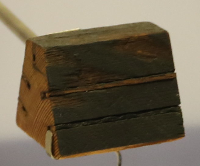 Photo of a section of a Cooke and Wheatstone 5 wire telegraph cable